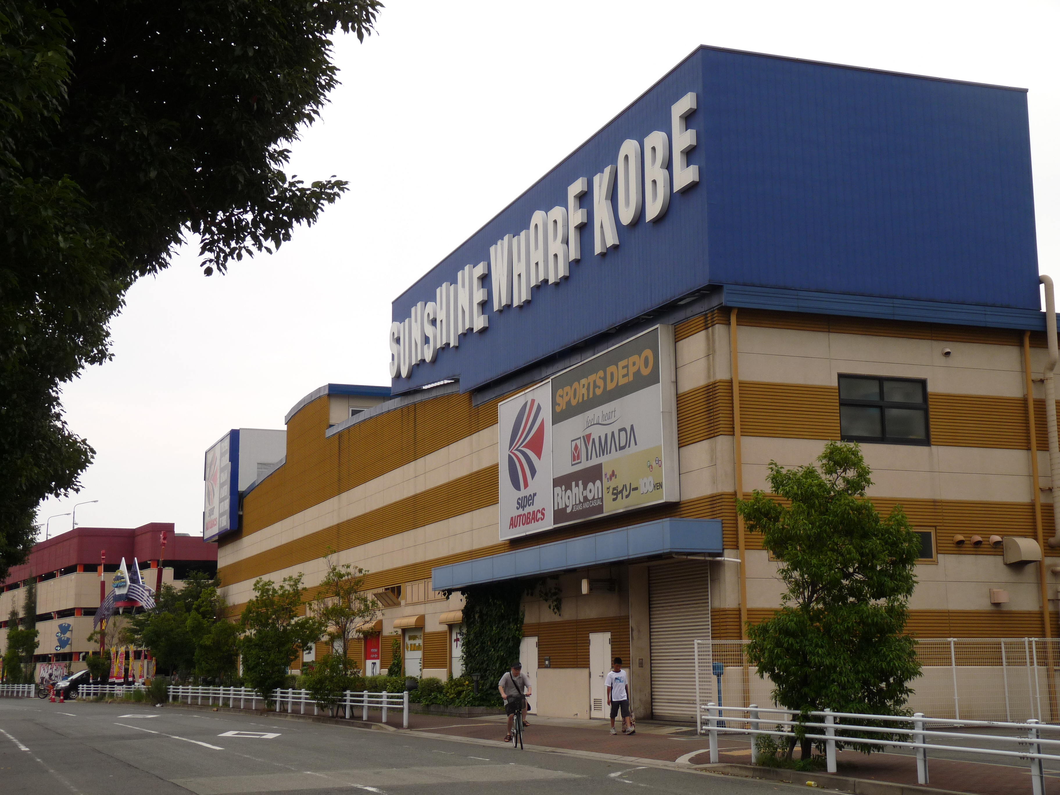 Sunshine Wharf Kobe